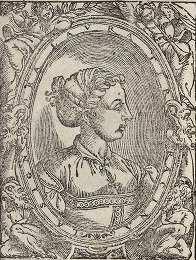 Collection: Folger Shakespeare Library Digital Image Collection Collection Folger Shakespeare Library Digital Image Collection Collection Source Creator: Terracina, Laura, 1519-ca. 1577. Author Terracina, Laura, 1519-ca. 1577. Source Creator Source Title: La prima[-seconda] parte de’discorsi sopra le prime[-seconde] stanze de’canti d’Orlando furioso / della sig. Laura Terracina detta nell’Academia de gl’incogniti Febea. CD_Title La prima[-seconda] parte de’discorsi sopra le prime[-seconde] stanze de’canti d’Orlando furioso / della sig. Laura Terracina detta nell’Academia de gl’incogniti Febea. Source Title Source Created or Published: 1584 Imprint 1584 Source Created or Published Physical Description: author portrait Page_Numbers author portrait Physical Description Source Call Number: 168-765q, Volume 1 Call_Number 168-765q, Volume 1 Source Call Number Digital Image File Name: 54143 ROOTFILE 54143 Digital Image File Name Digital Image Type: FSL collection Image_Type FSL collection Digital Image Type Hamnet Bib ID: 76195 Bibrecord001 76195 Hamnet Bib ID Hamnet Holdings ID: 78228